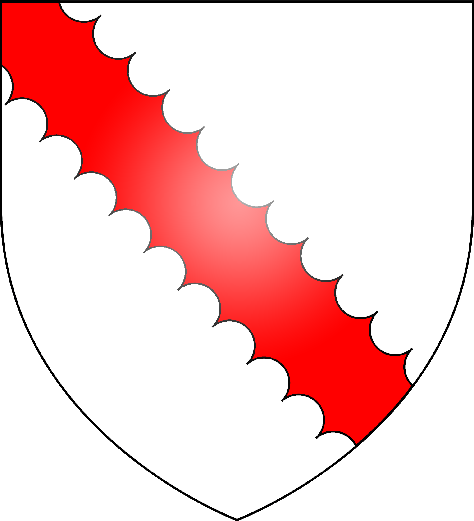 As described in the visitation of Kent 1619: Argent, a bend engrailed Gules. Also arms of Walerand